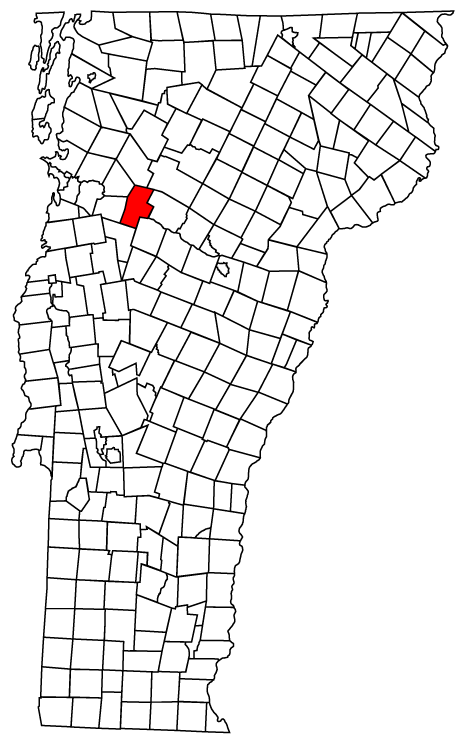 Map of Vermont towns with Bolton highlighted